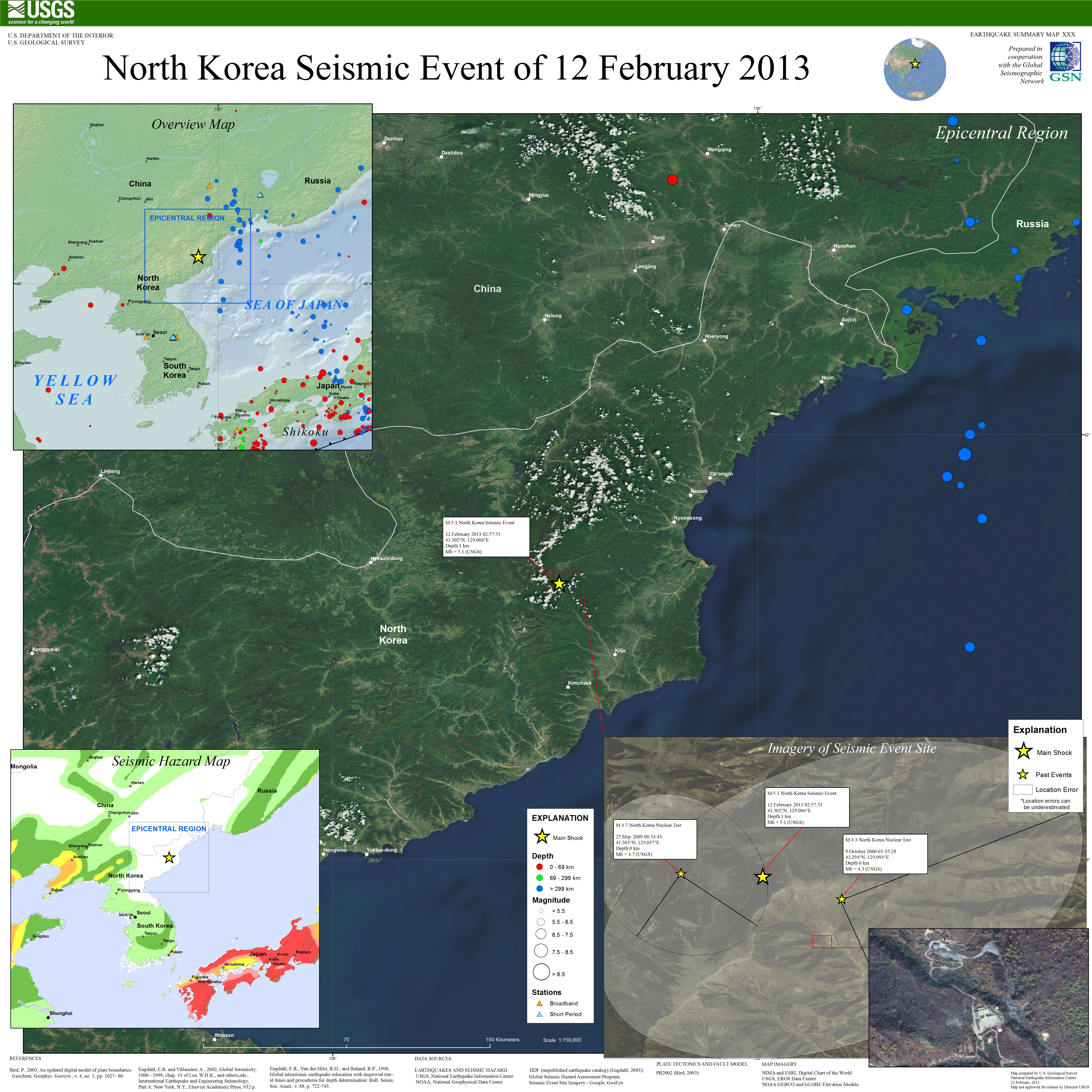 USGS information poster showing the intensity of the 2013 North Korean nuclear test.